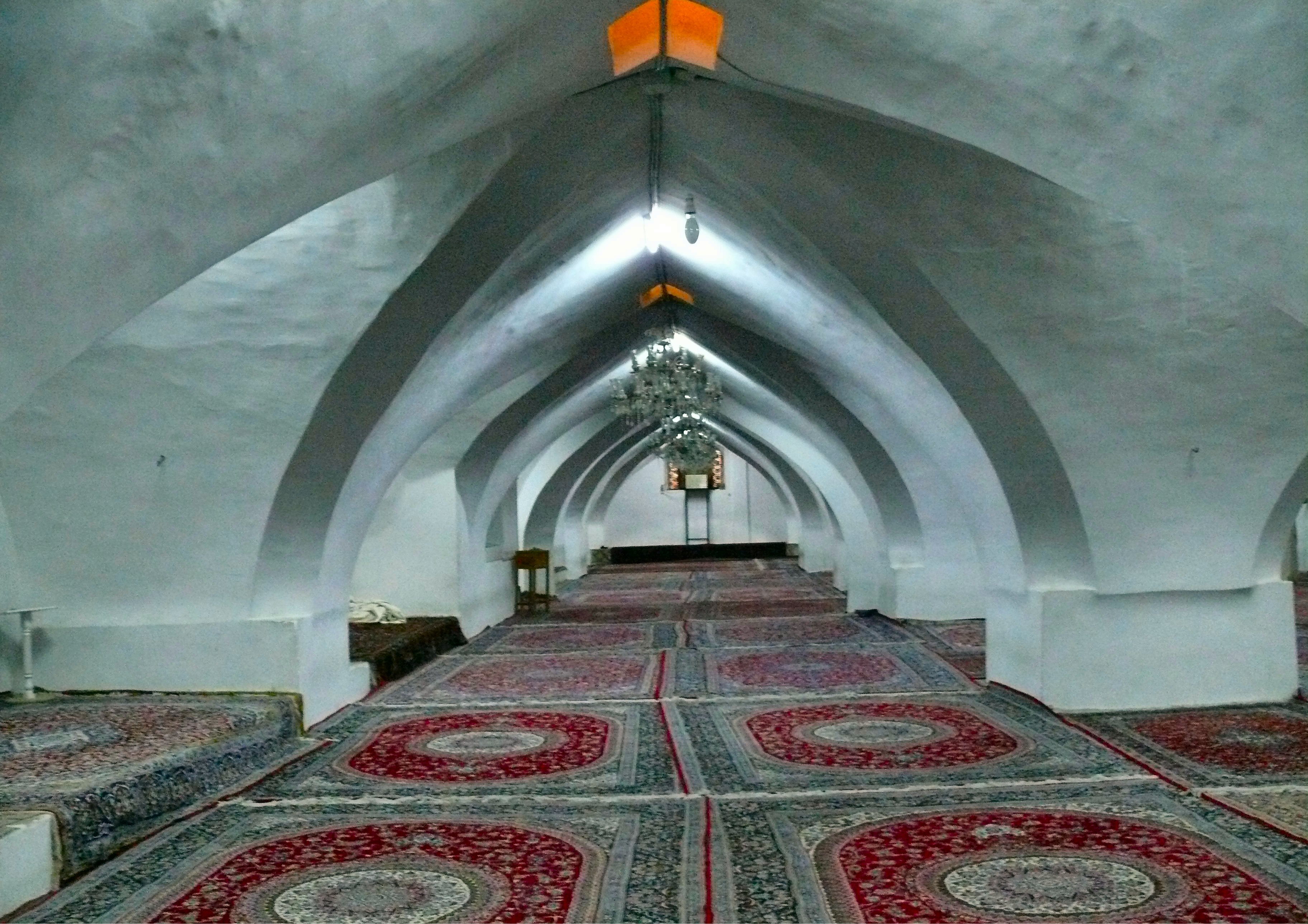 Praying room of the Friday Mosque (Masdjed-e Jomeh) at Isfahan, Iran, April 2007. The mosque dates from the Buyid era (934-1055 CET) and has been reconstructed, extended, renowed almost permanently since the beginning. Decorative and architectural elements of the following dynasties were then progressively incorporated along the time: Seldjuks Moguls, Mozzafarids, Teymurides, and Safavids.